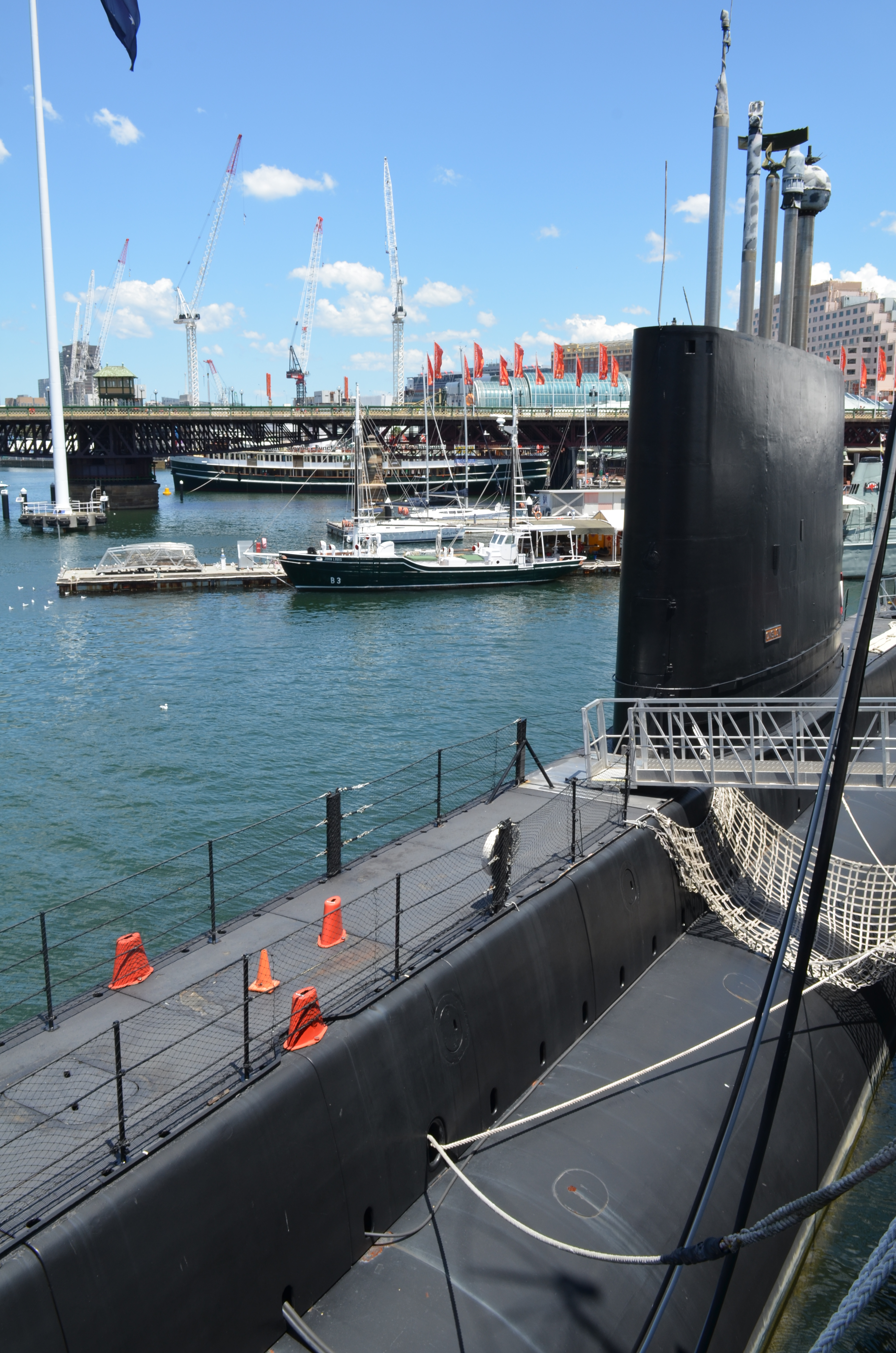 The fin and central section of the submarine HMAS Onslow. The orange fairings in the foreground cover the receivers for the Micropuffs sonar system